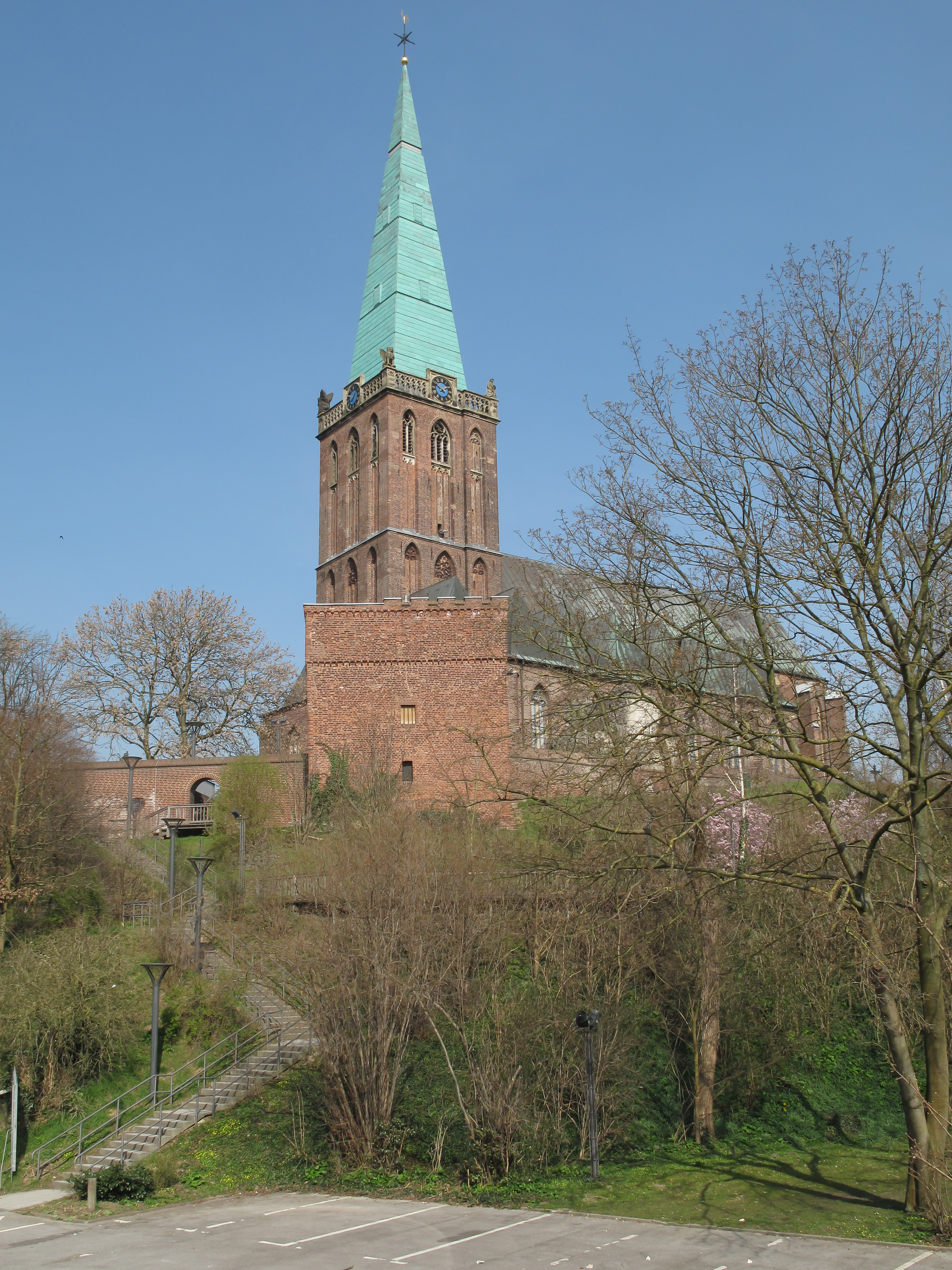 Heinsberg, church